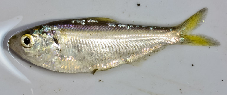 Dorosoma petenense from Mare Island, Solano Co., CA, USA